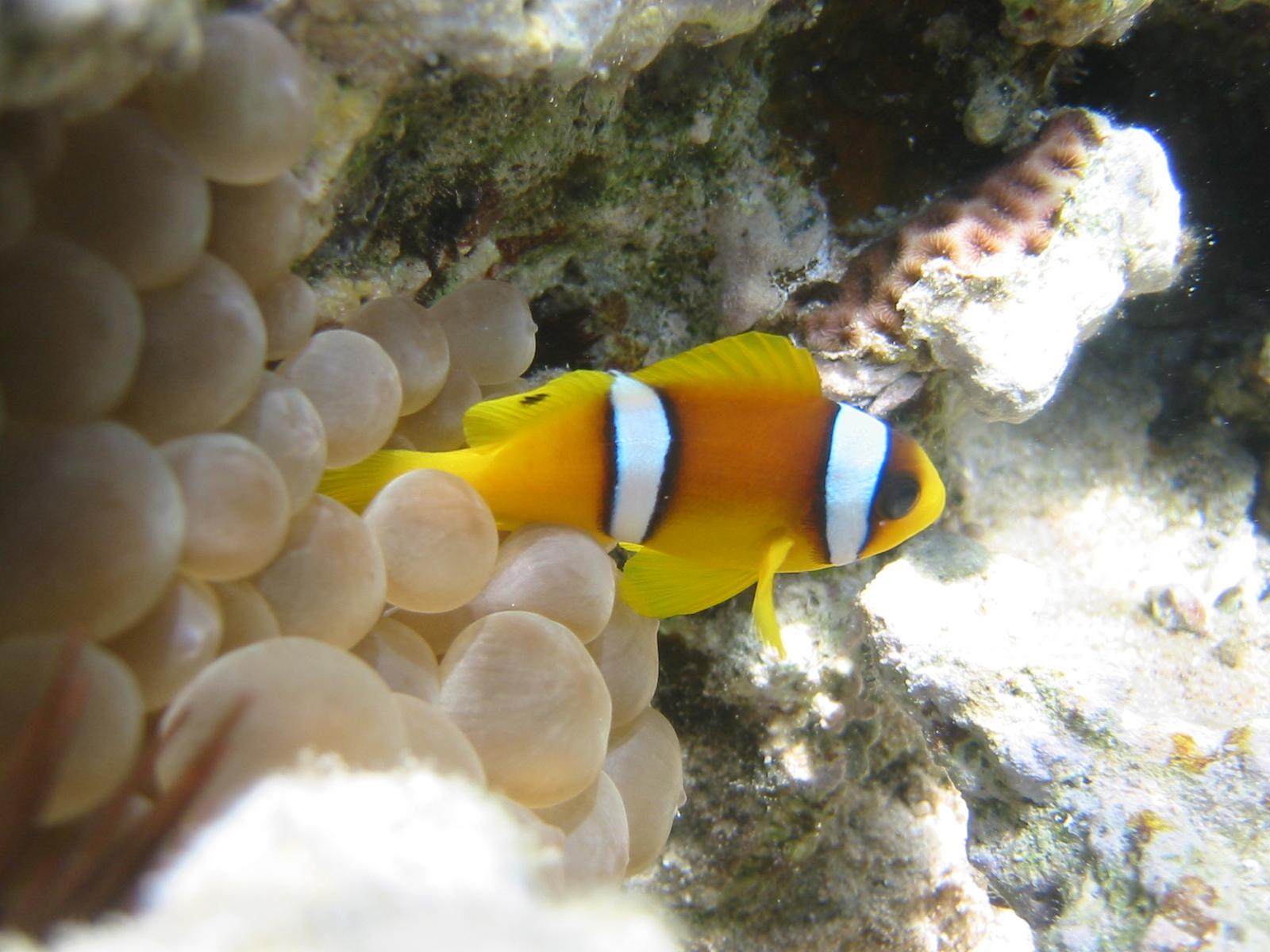 Coral reef off Sharm el-Sheikh & Naama Bay, Red Sea